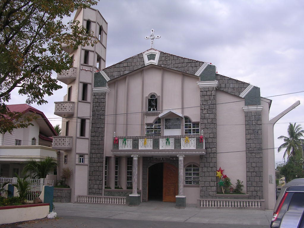 The Cathedral of San Roque, San Felipe, Zambales, Philippines. Cathedral of the Philippine Independent Church